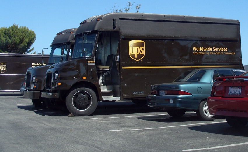 UPS Package Car United Parcel Service package cars in a shopping center parking lot in Redwood City, California.